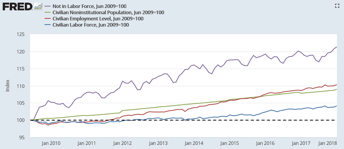 U.S. employment trends in key variables with the number of persons indexed to show relative changes, from 2009-2014.